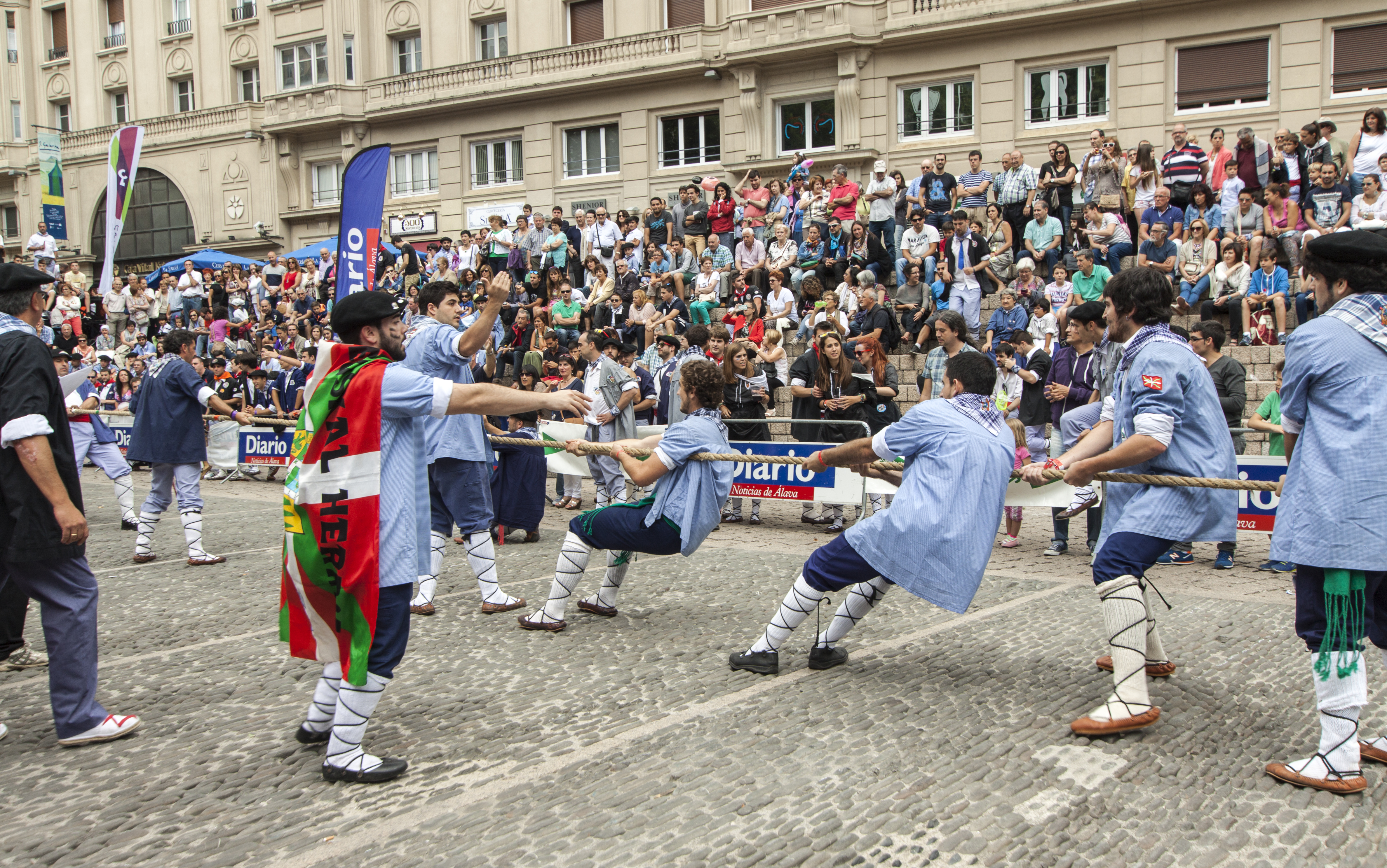 This is a photography of a Folklore festival in Spain (Wikidata id Q3045527).